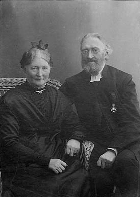 Swedish clergyman Johannes Arbman (1844-1917) and his wife, Hanna Frykholm